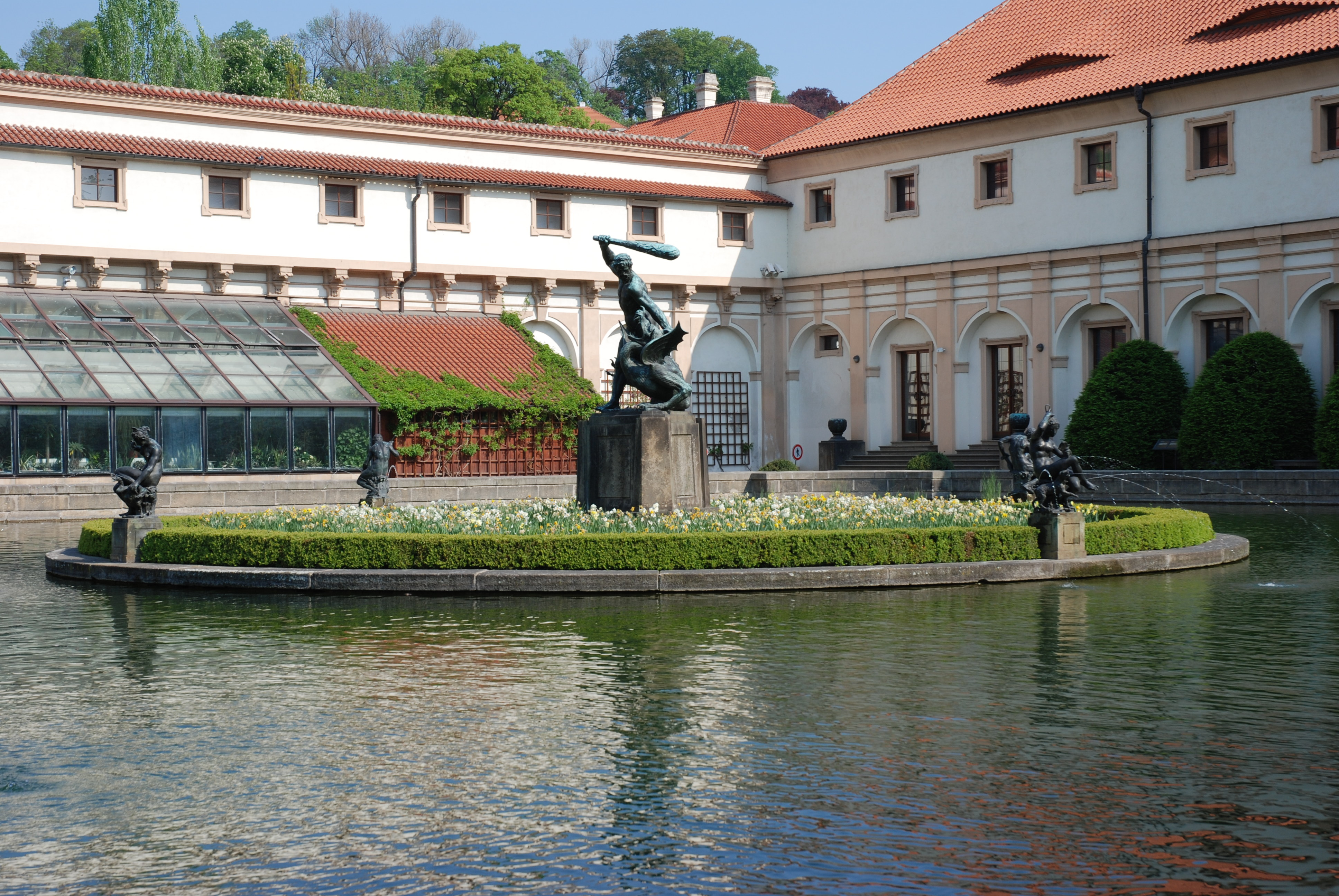 Adriaen de Vries´sculpture Hercules battles the dragon (1590-94) in the garden of the Wallenstein Palace in Prague